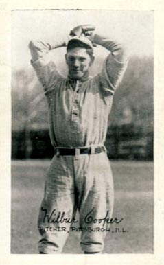 Baseball card of Wilbur Cooper